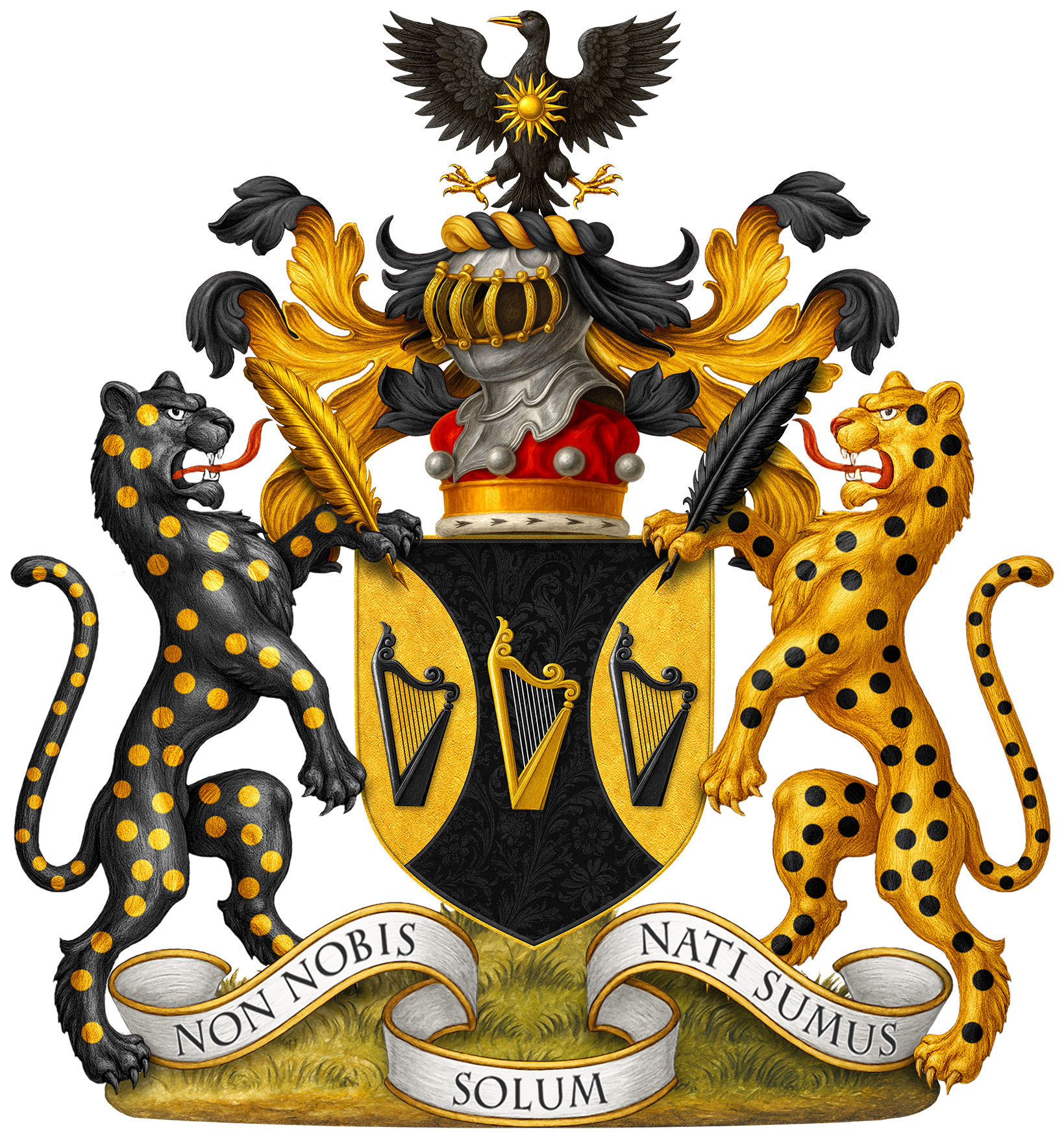 Coat of arms of The Right Honorable Baron Haden-Guest, originally granted by the College of Arms in 1950 to Leslie Haden-Guest, the 1st Baron Haden-Guest. The title is currently held by Christopher Haden-Guest, 5th Baron Haden-Guest. “ Arms: Sable two flaunches or, three Welsh triple harps in fess counter-changed. Crest: A caladrius displayed sable, beaked, legged and charged on the breast with a sun in splendour or. Supporters: Dexter, a leopard sable semée of roundels and grasping in the interior paw a quill or; Sinister, a leopard or semée of roundels and grasping in the interior paw a quill sable. Motto: Non nobis solum nati sumus (Not for ourselves alone do we come into the world). ”